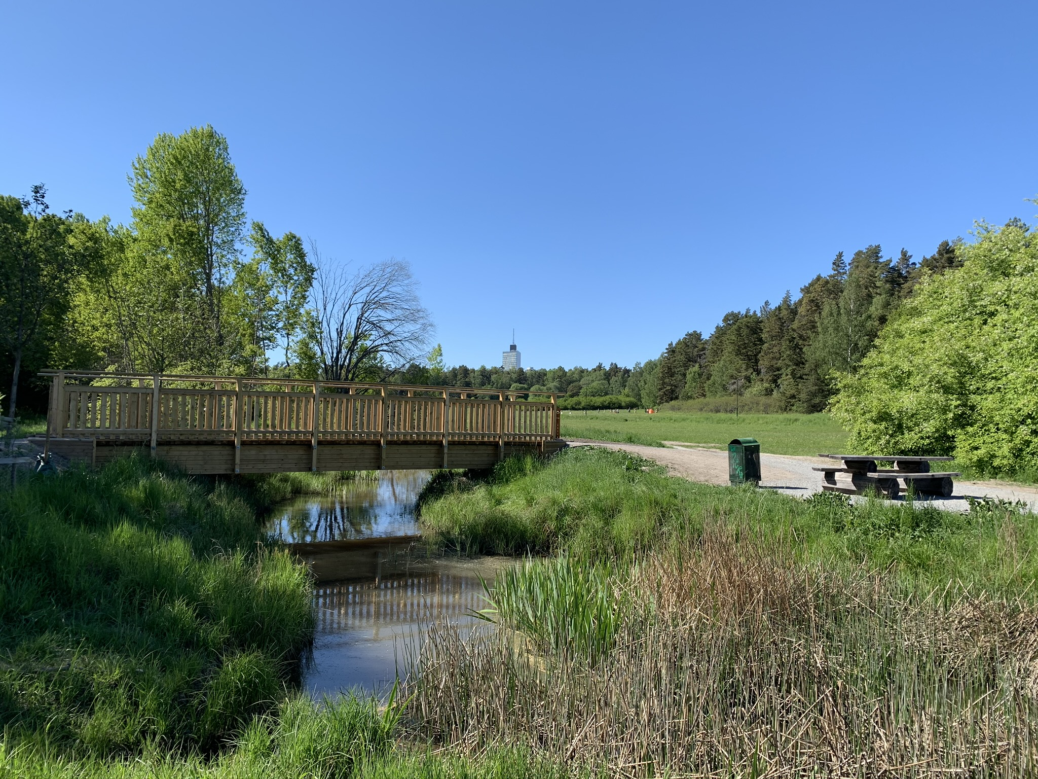 Bridge over Igelbäcken Sundbyberg with Kista Science Tower on the background